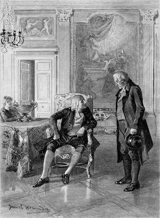 Title page of Honoré de Balzac's The Cabinet of Antiquities, (1839).